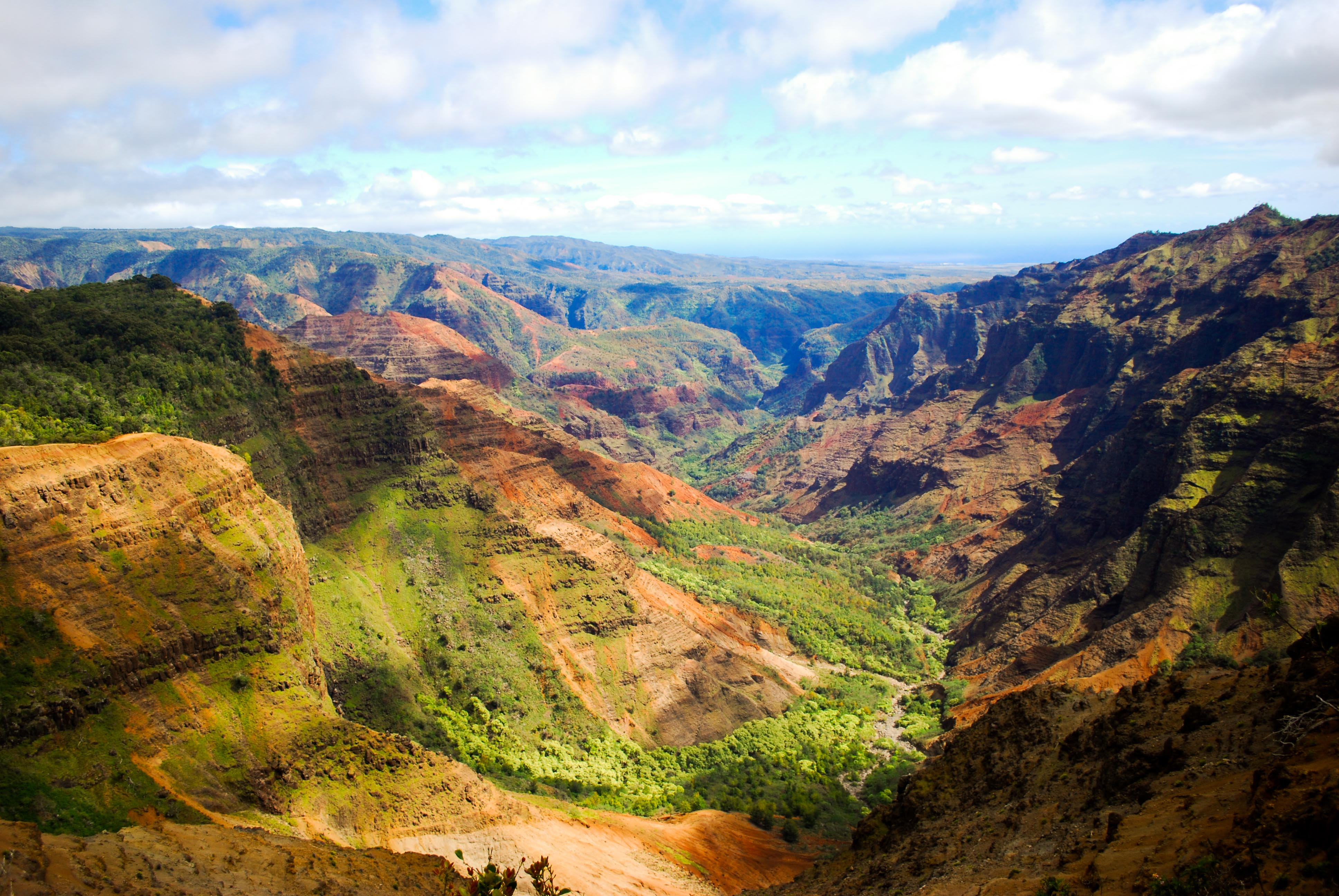 This is a photo of Waimea Canyon on the island of Kauai.